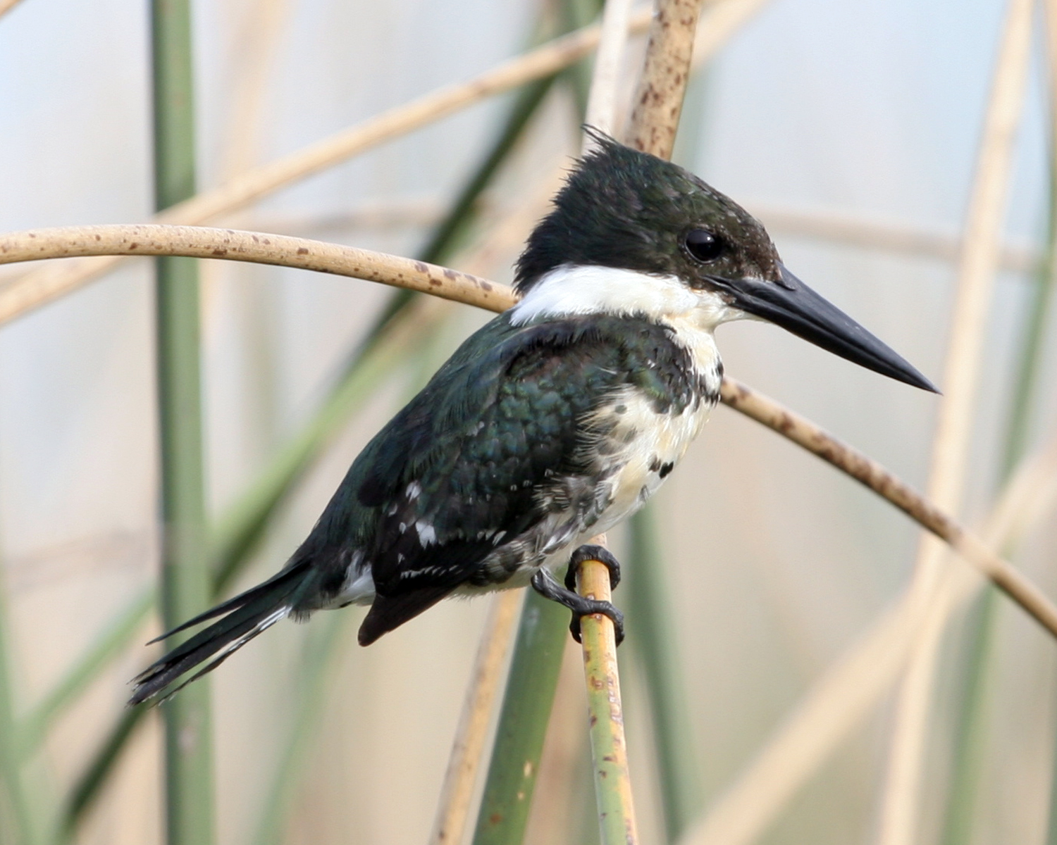 Green kingfisher Chloroceryle americana female Location: Ibera wetlands, Argentina 2nd. april 2006